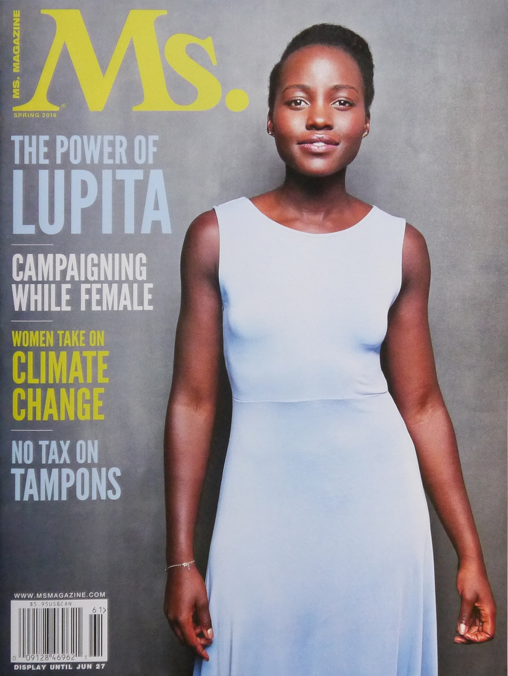 Ms. magazine, Spring 2016 with Lupita Nyong'o